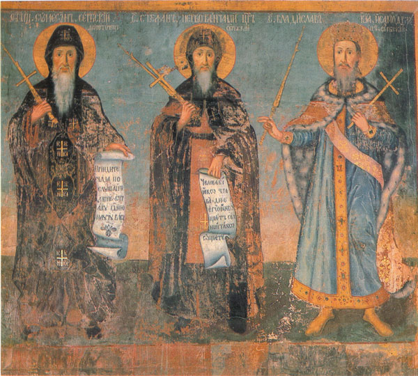 St. Simeon the Serb (Stefan Nemanja), St. Stefan the First-Crowned and St. Vladislav. Icon from Krušedol monastery. 1750.